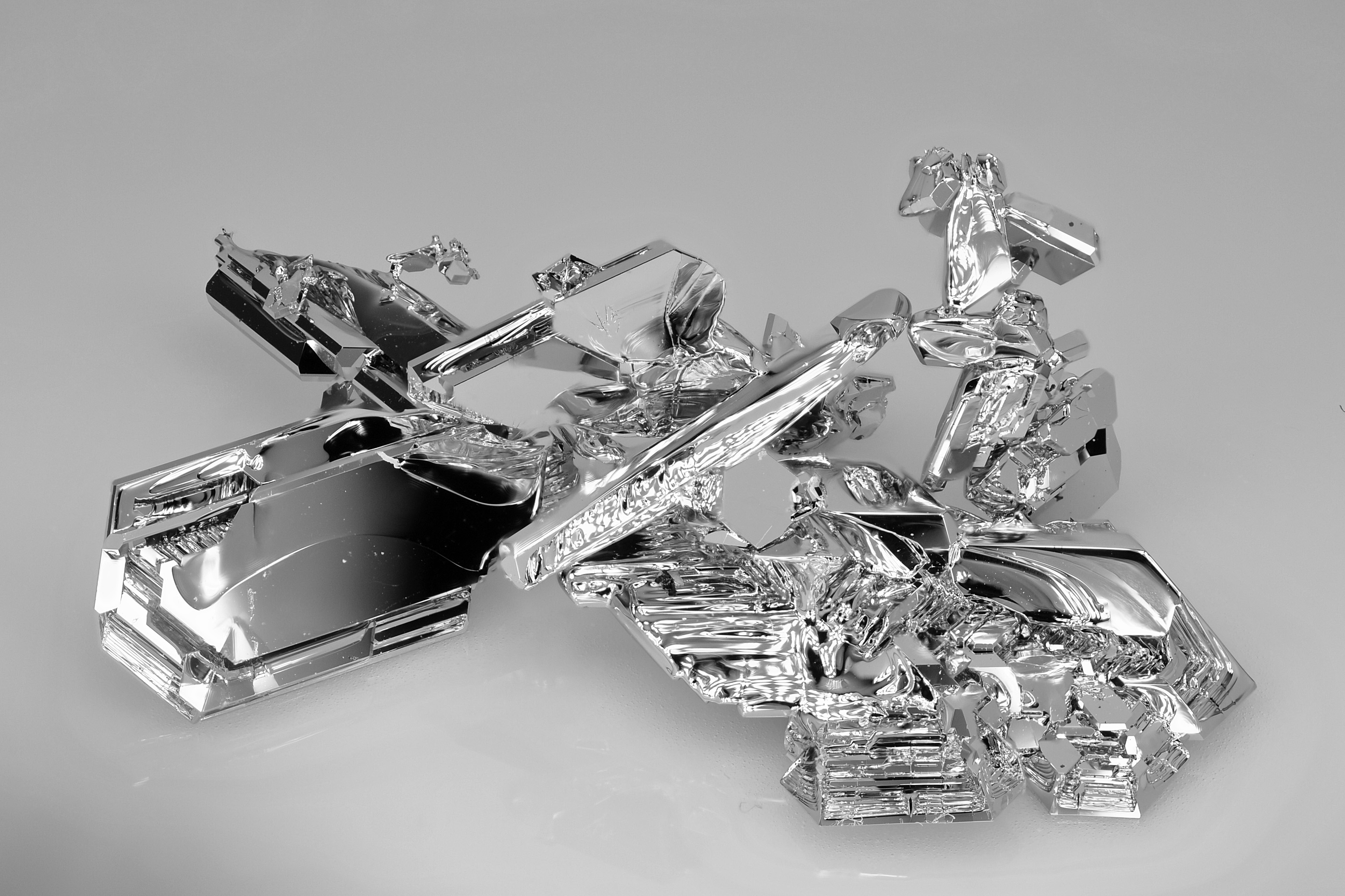 Crystal of high purity Ruthenium, picture width: 30mm, weigth: 1.45g